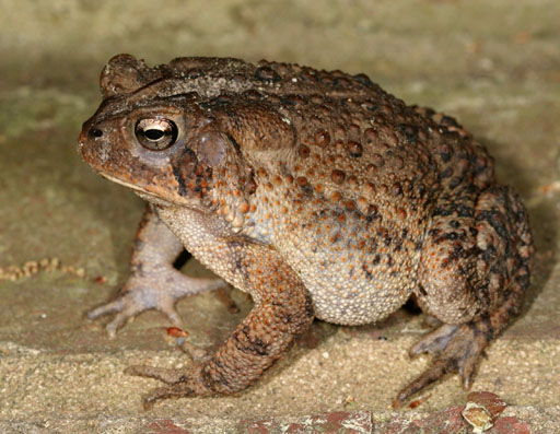 American Toad, Bufo americanus, dorso-lateral view. Location: Durham County, North Carolina, United States. (Bufo americanusPCCA20060417-3352B1.jpg--flipped from original)